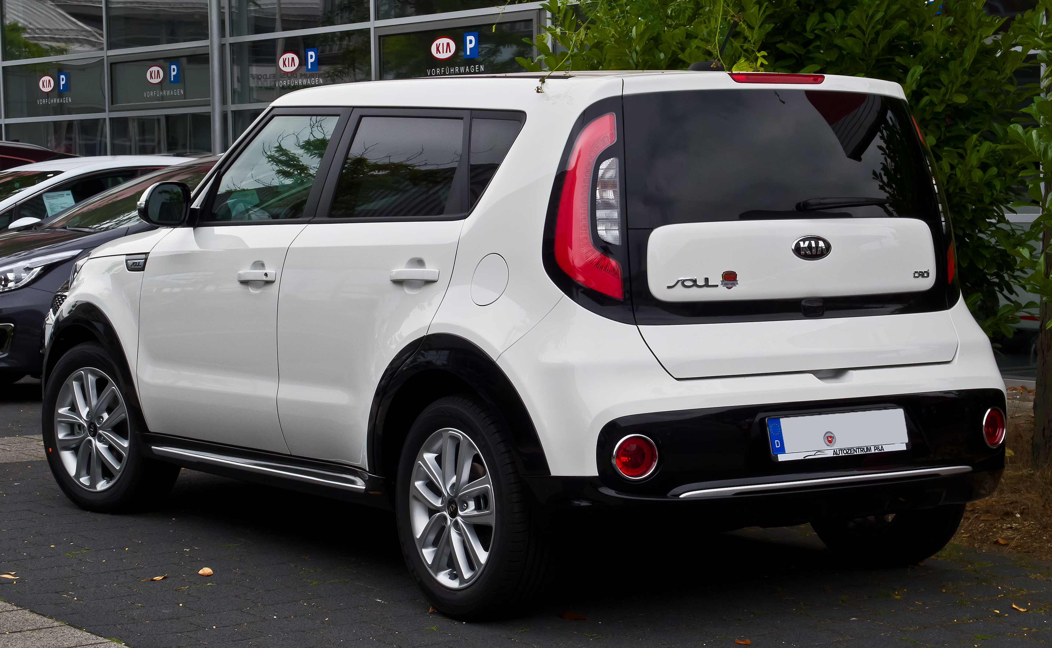 Kia Soul 1.6 CRDi Dream-Team Edition (II)